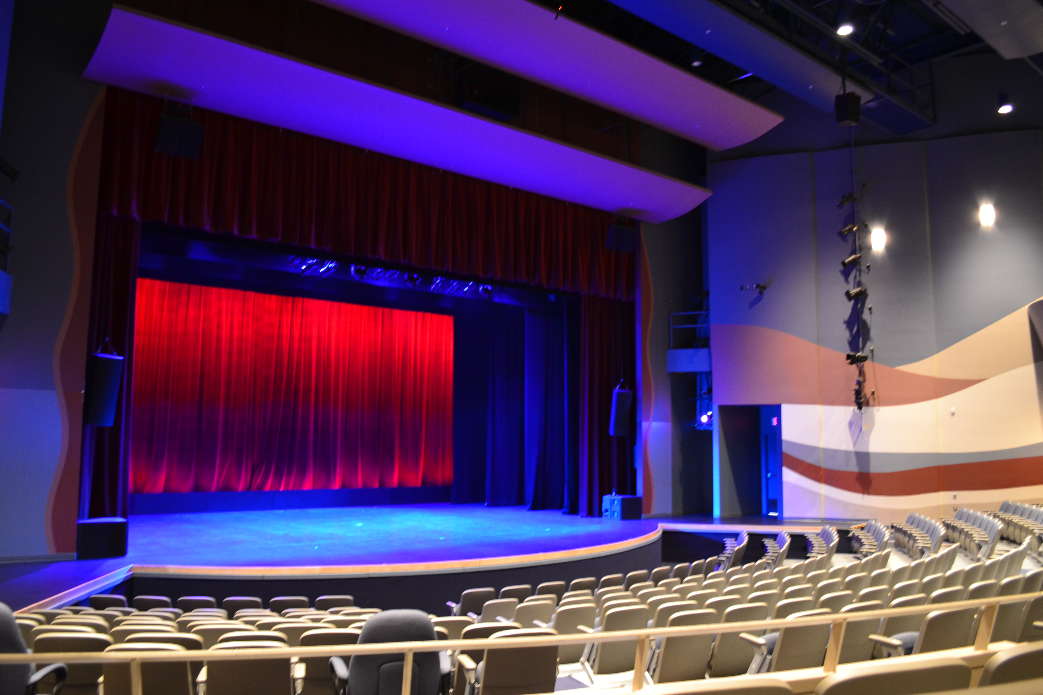 Dow Centennial Centre Shell Theatre Stage Area